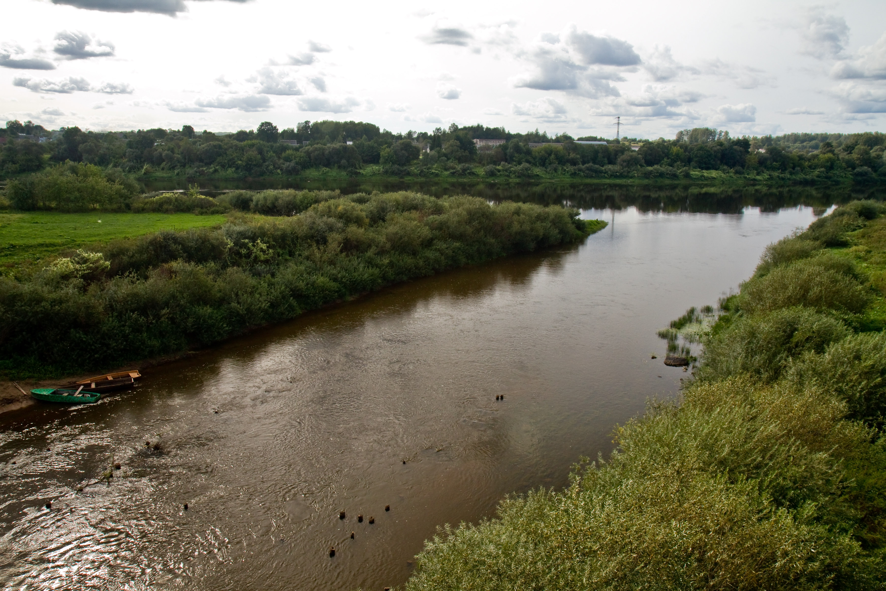 Drysa river in Verkhnyadzvinsk. Viciebsk province, Belarus.